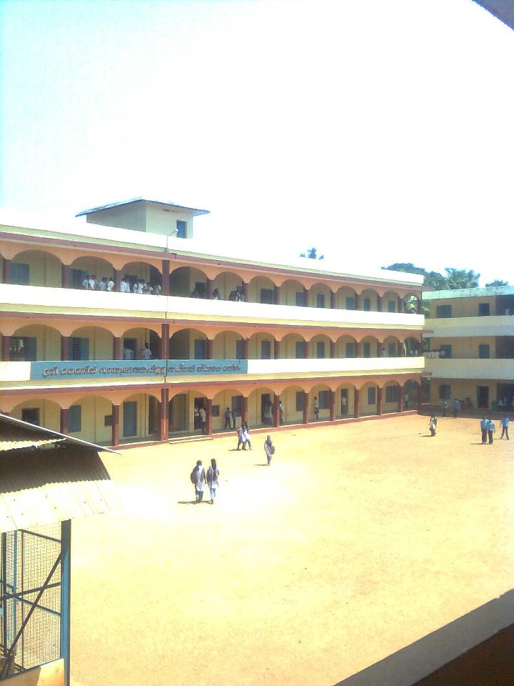 vhss in kollam district